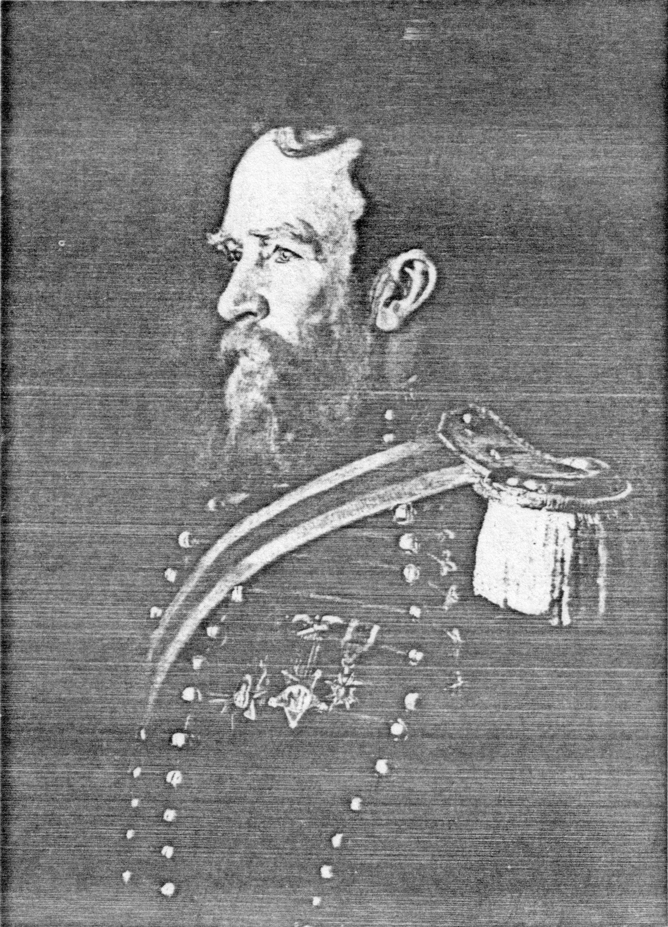 Captain Joseph Lapsley Wilson G289